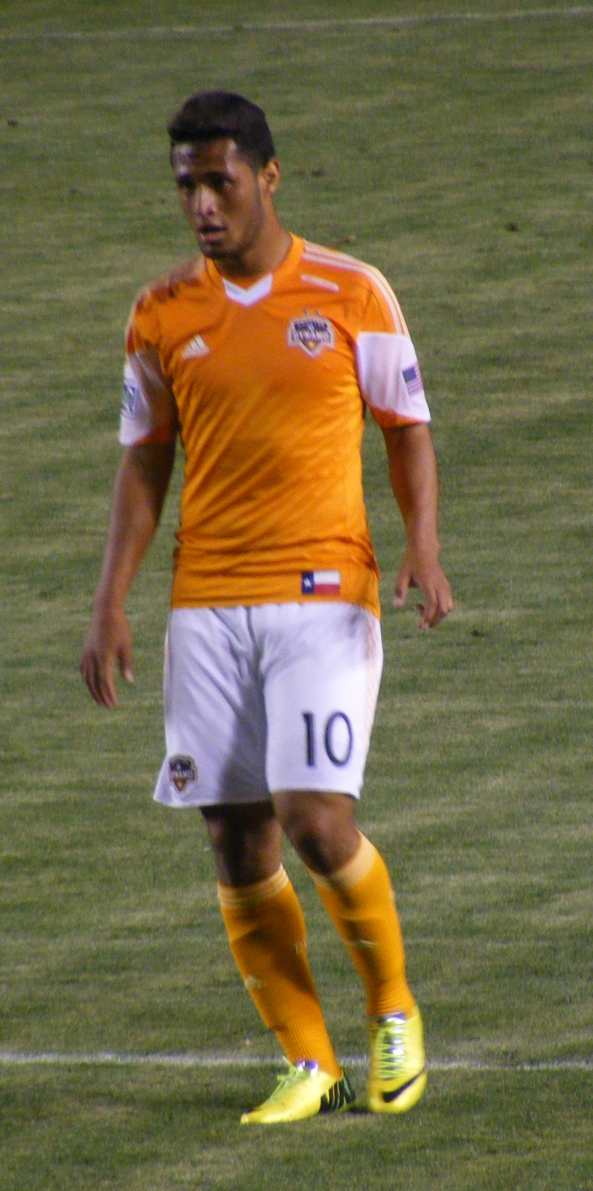 Alexander López pictured after a game against Chivas USA on may 2014.